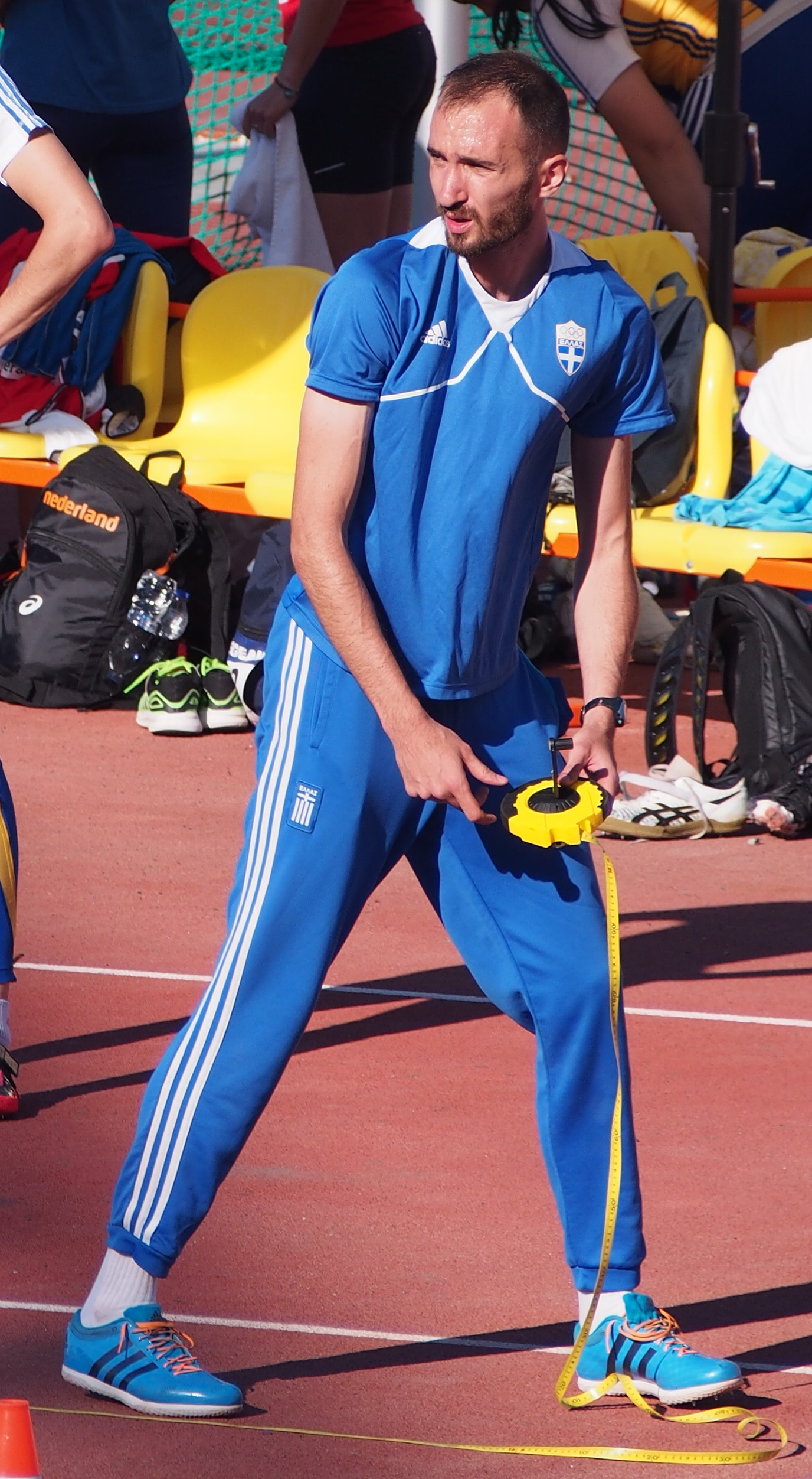 Konstatinos Baniotis during the warming up for the high jump event of the 2015 European Team Championships First League.